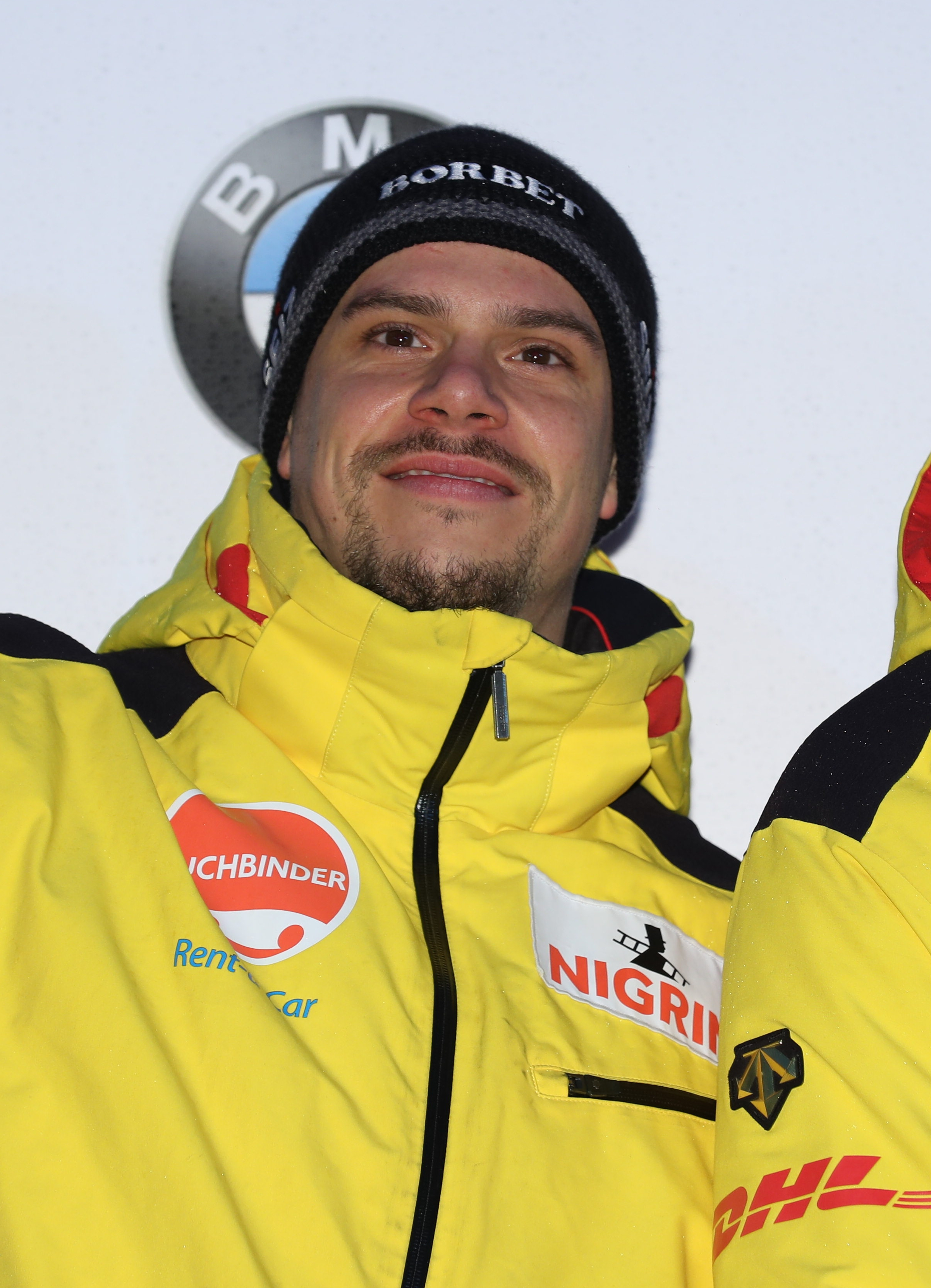 Medal Ceremony at the 2-man bobsleigh at the Bobsleigh and Skeleton World Championships 2020 in Altenberg